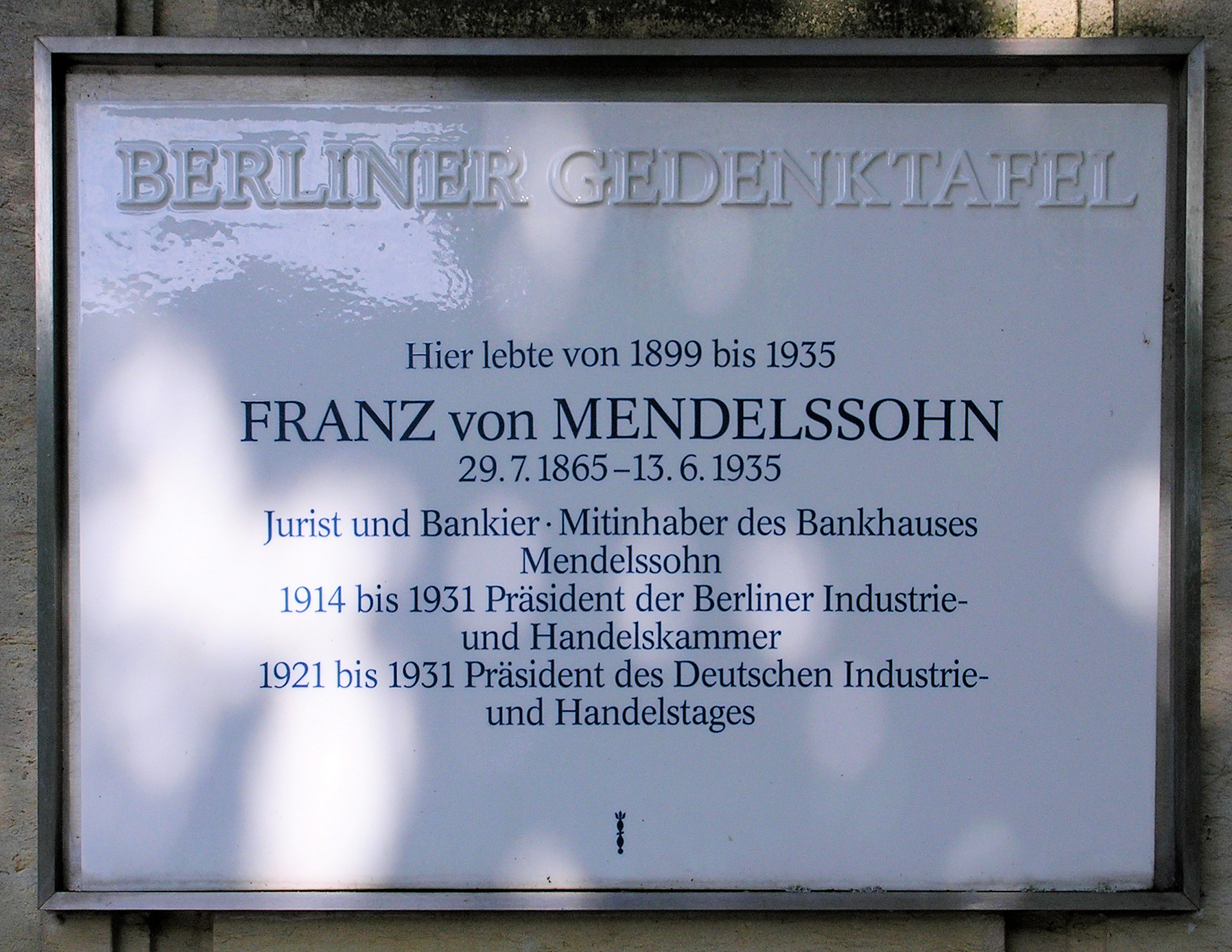 Berlin memorial plaque, Franz von Mendelssohn, Bismarckallee 23, Berlin-Grunewald, Germany Koordinate:52°29′17″N 13°16′41″E / 52.48806°N 13.27806°E